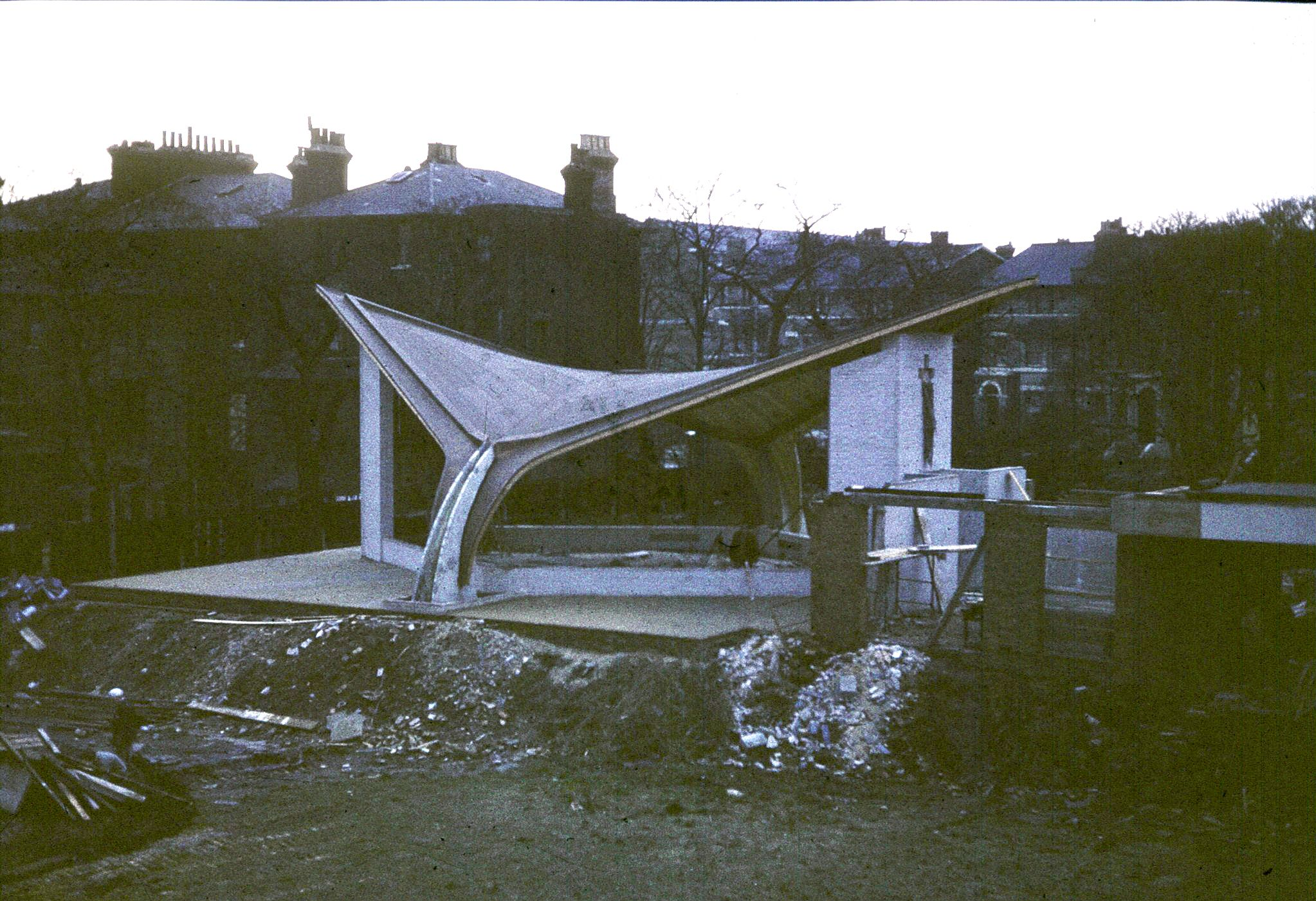 South-east elevation of Church Army Chapel, Blackheath, London, England, being built during 1964. This is a 2009 scan of a 1964 slide taken by the architect, E.T. Spashett (from his archive collection). The scan came out very dark indeed, and some photoshopping of light and contrast was required after the scan to bring out the details - however nothing has been added. There is a slight chance that the metal objects piled on the ground (left edge of image) could be the aluminium sections of the spire. They are not scaffolding (too short and wide; compare with real scaffolding on right of image). The pieces include (possibly) the flanged spire base and a few of the tin-can-shaped sections. During later development the base was redesigned, possibly with a much larger base-plate. The original base-fixing for the spire in the centre of the roof in this picture looks much smaller than the remains of the fixing still evident in 2009. N.B. This image is possibly reversed left-right; it will be corrected in due course.